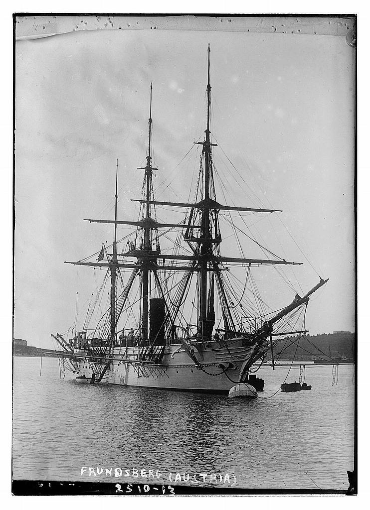 Frundsberg circa 1905 Bain News Service,, publisher. FRUNDSBERG (Austria) [between 1910 and 1915] 1 negative : glass ; 5 x 7 in. or smaller. Notes: Title from unverified data provided by the Bain News Service on the negatives or caption cards. Forms part of: George Grantham Bain Collection (Library of Congress). Format: Glass negatives. Repository: Library of Congress, Prints and Photographs Division, Washington, D.C. 20540 USA, General information about the Bain Collection is available at Persistent URL: Call Number: LC-B2- 2510-13